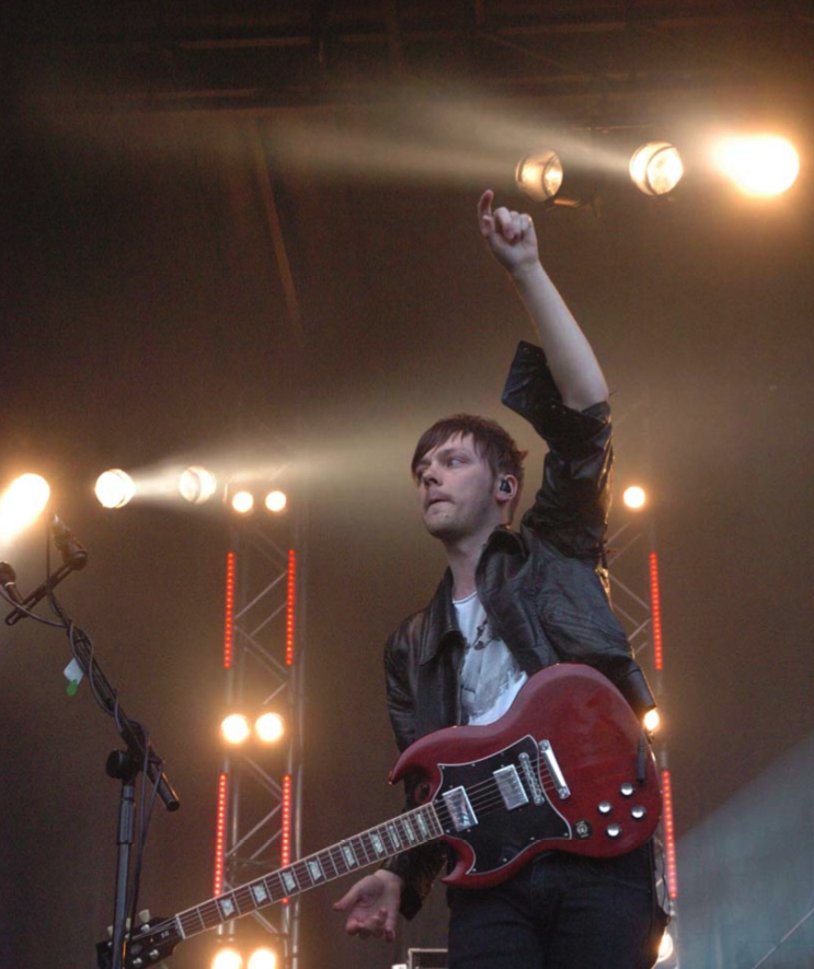 'The Automatic performing at this years Barry Waterfront Festival'